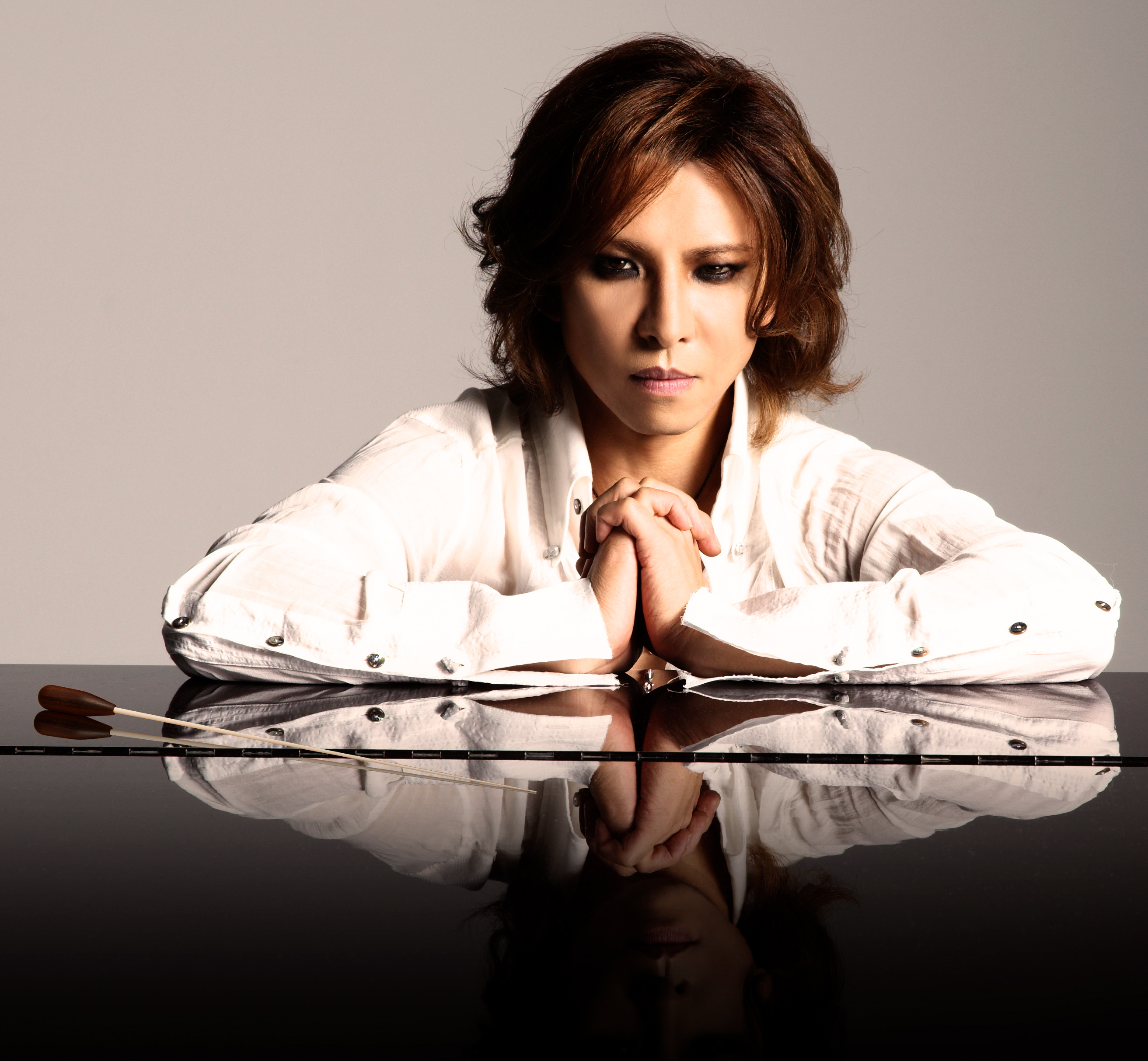 A photo of the Japanese artist Yoshiki.